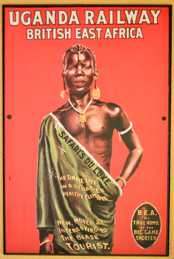 Uganda Railway Poster